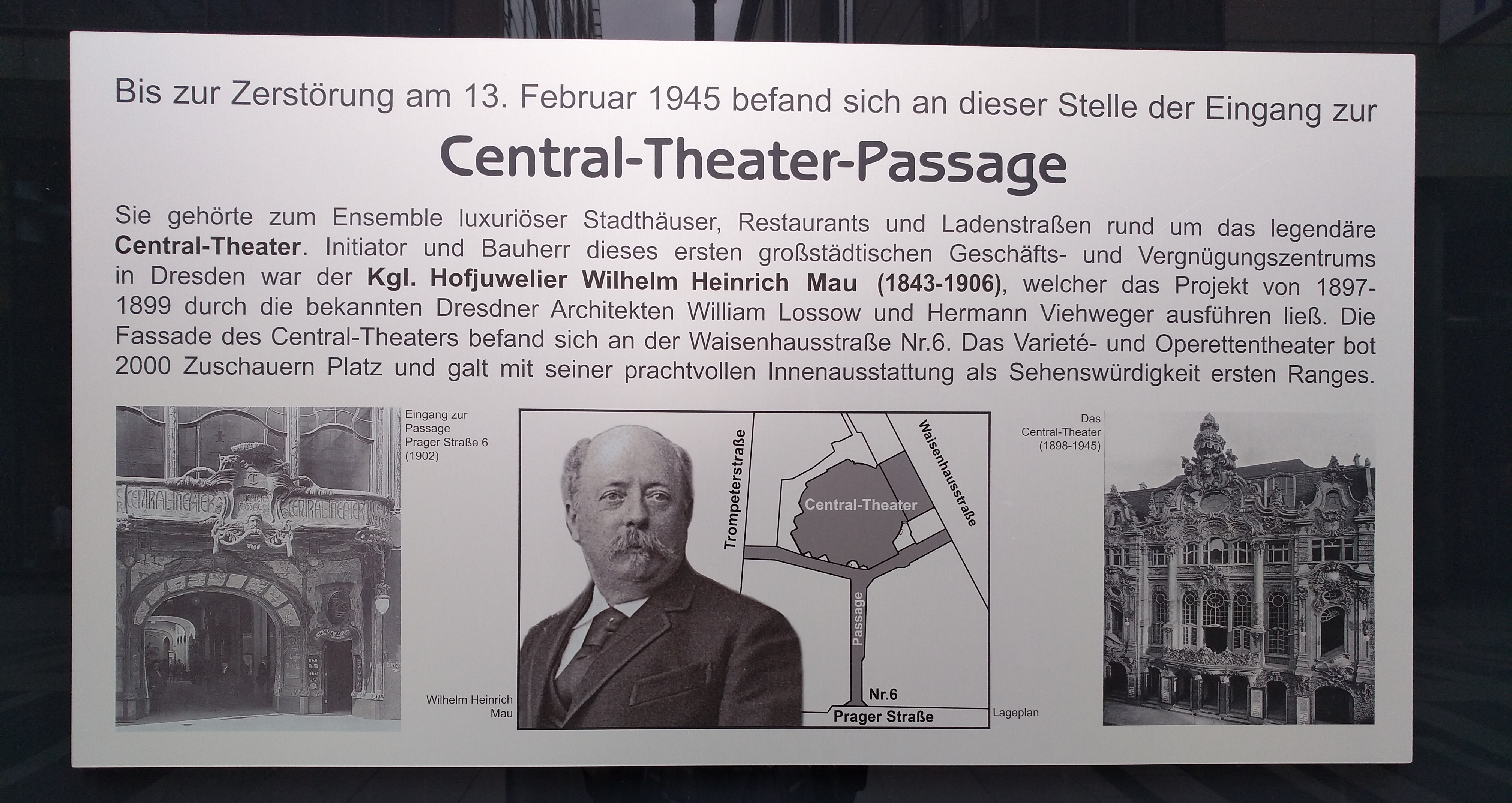 Gedenktafel Central-Theater und Heinrich Mau, Dresden, Prager Str. 7 (2)